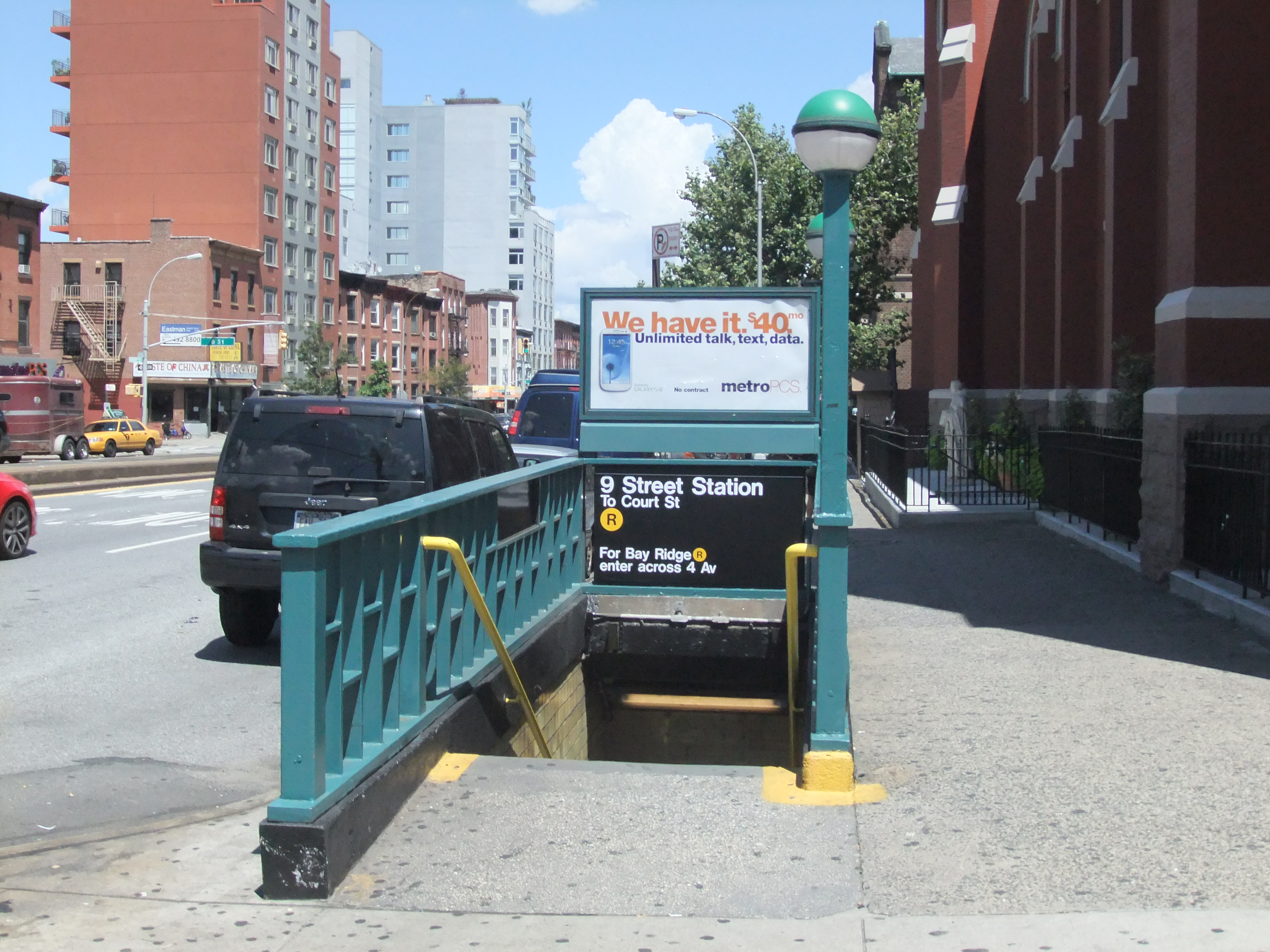 Stair at 4th Avenue and 9th Street to the Court Street/Manhattan bound (R) platform.